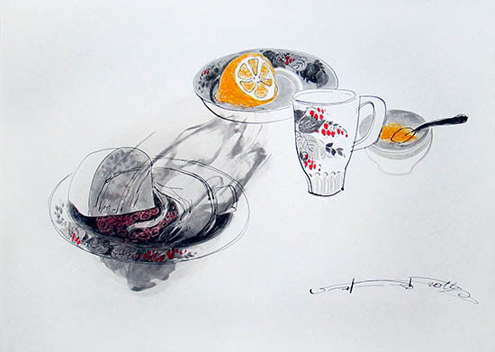 "Still life with lemon and honey". 2014 Mixed technique on paper. A2